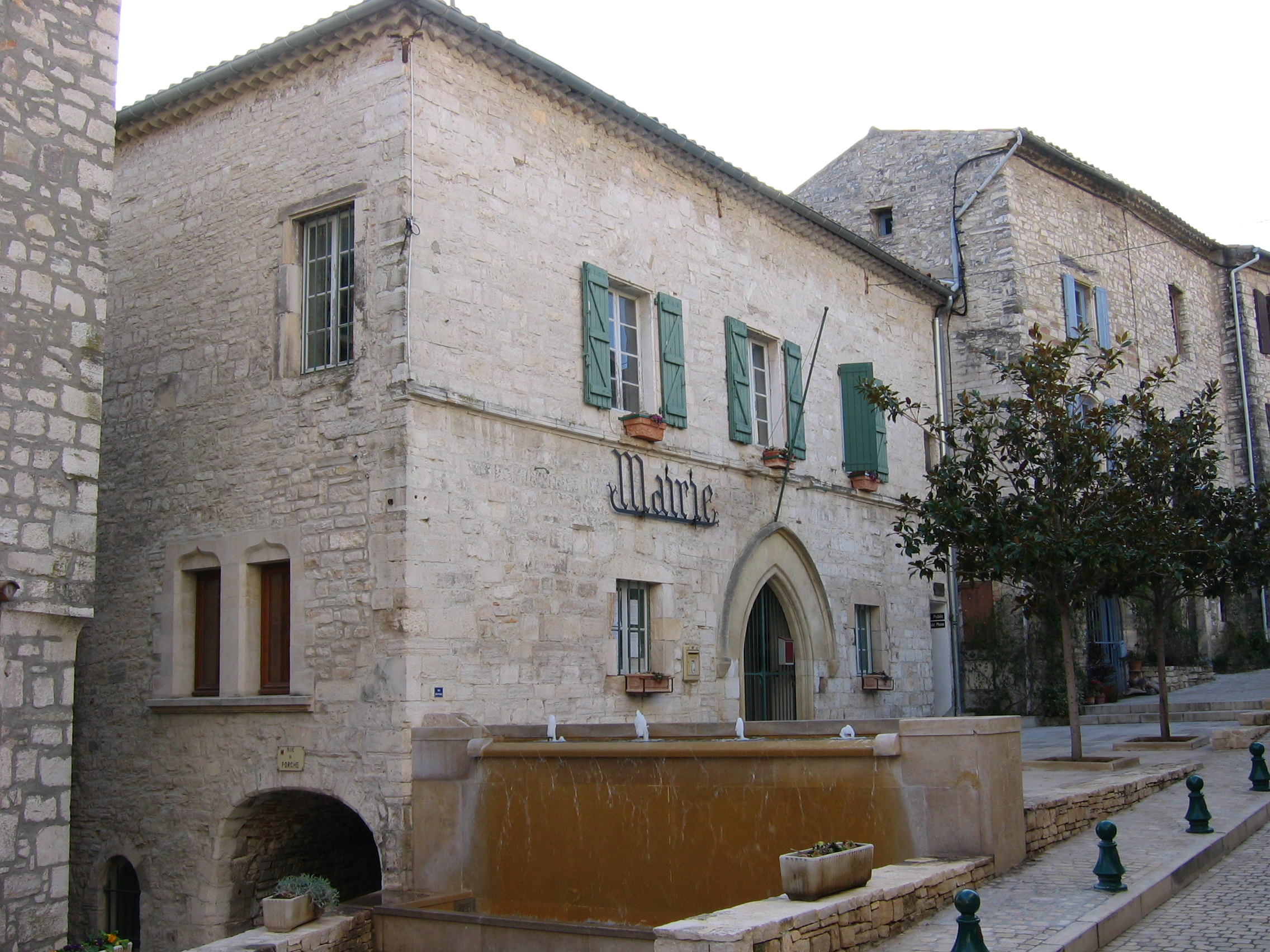 City hall of Vézénobres (France).